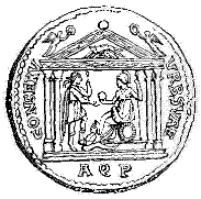 738 woodcuts illustrating the work A Dictionary of Roman Coins, Republican and Imperial (1889). To identify a coin please look at the filename to identify a page number, and check the Dictionary on numiswiki